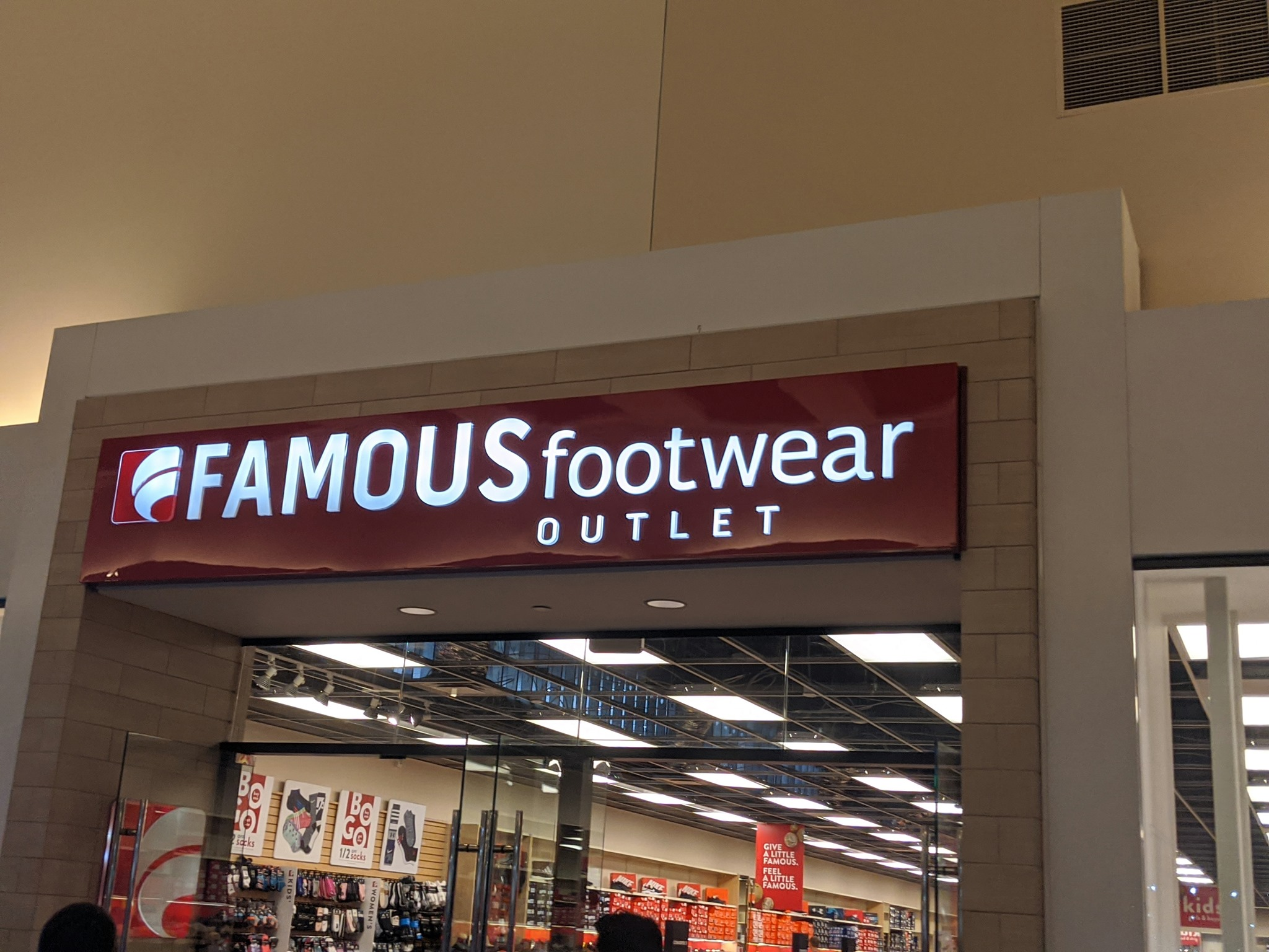 Famous Footwear Grapevine Mills